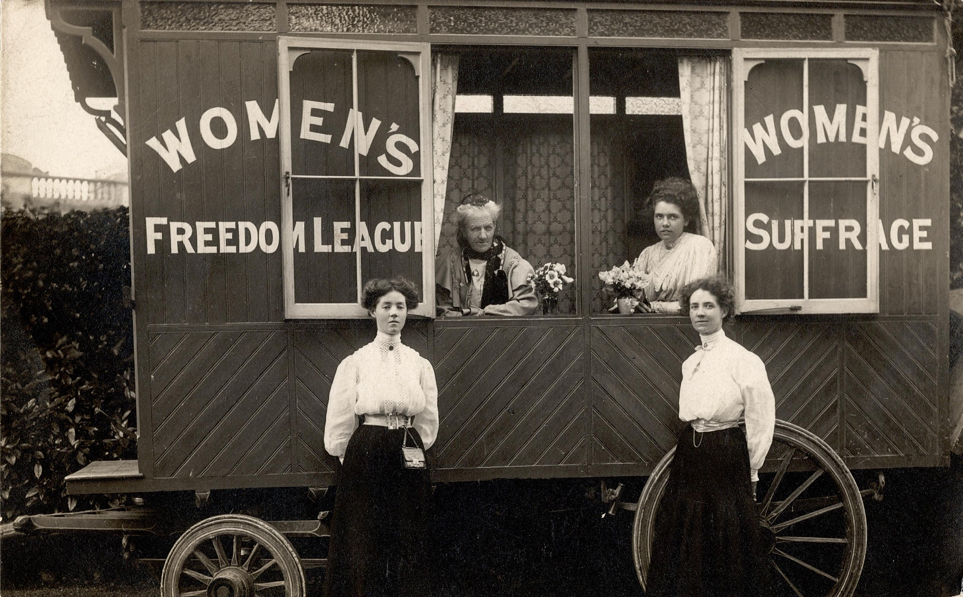 twl 2002 326 Charlotte Despard and Alison Neilans at the window, 1908